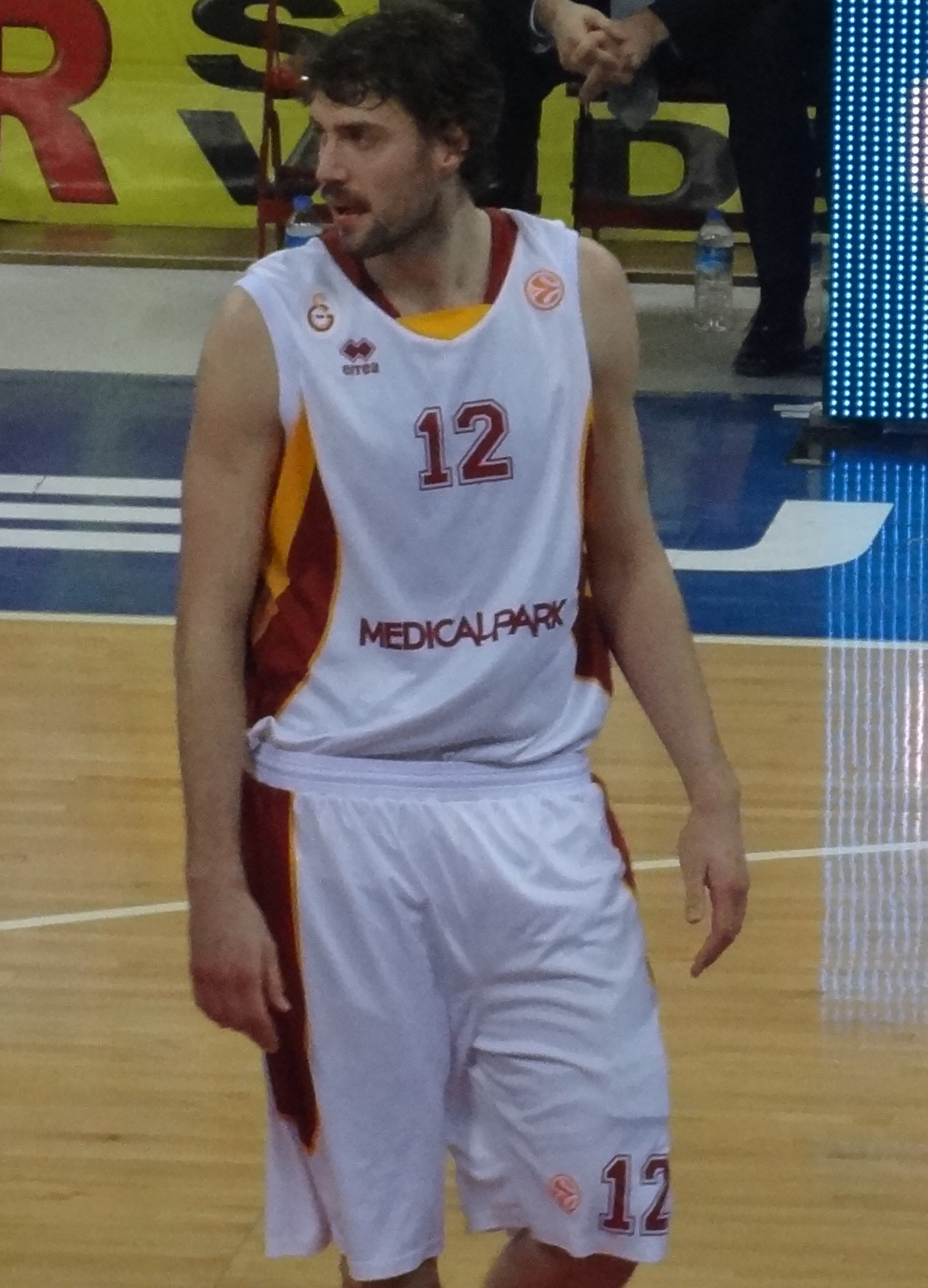 Andric olaying against Efes Euroleague match.